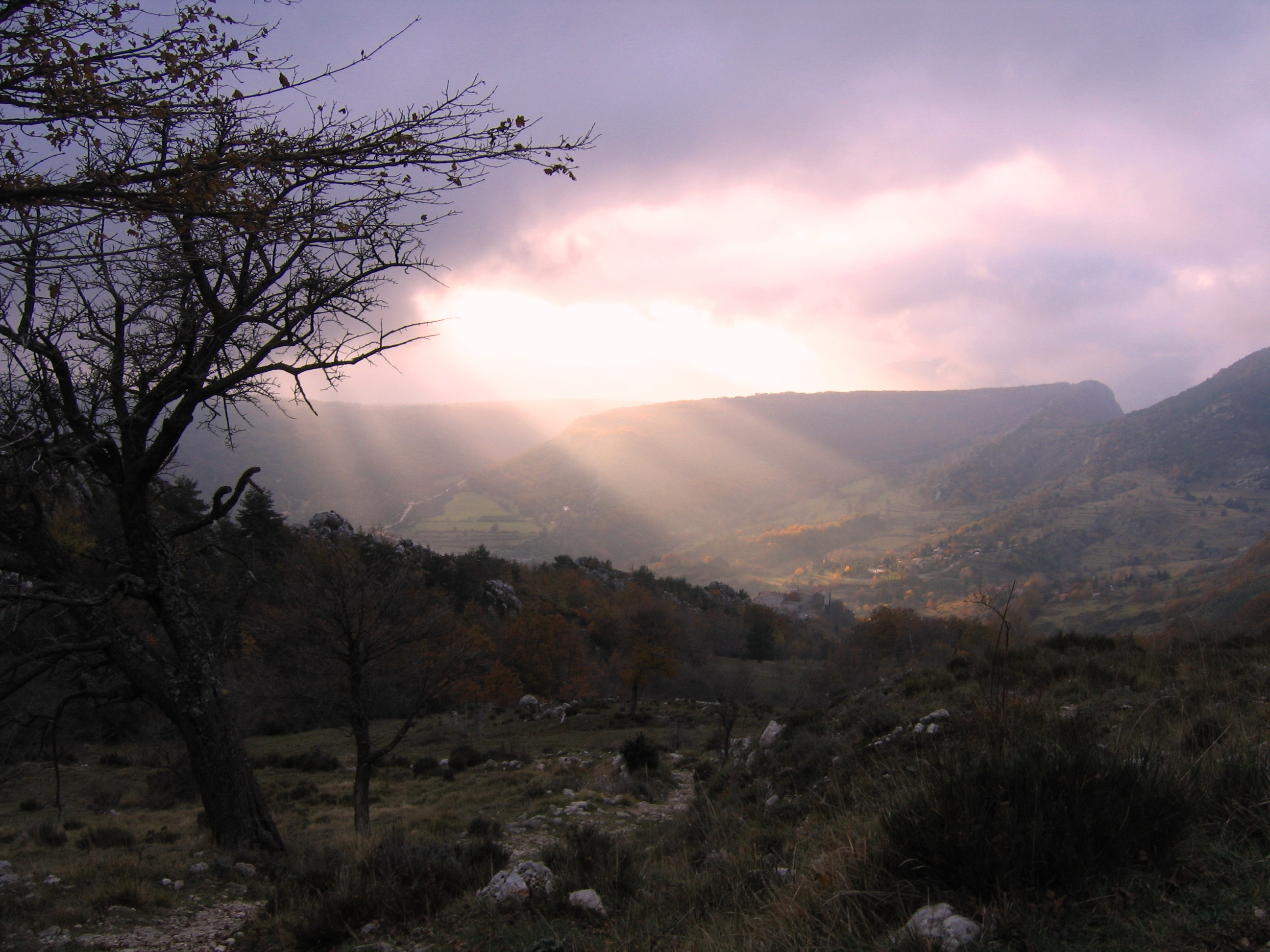 End of day above Coursegoules, Alpes-Maritimes, France